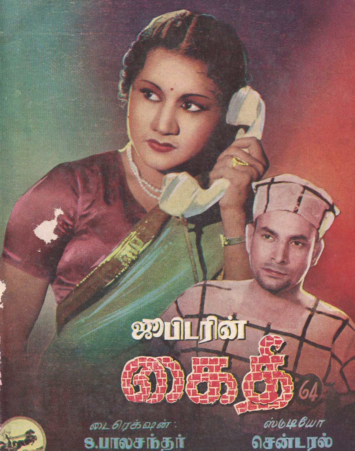 Poster for the 1951 South Indian Tamil film Kaithi